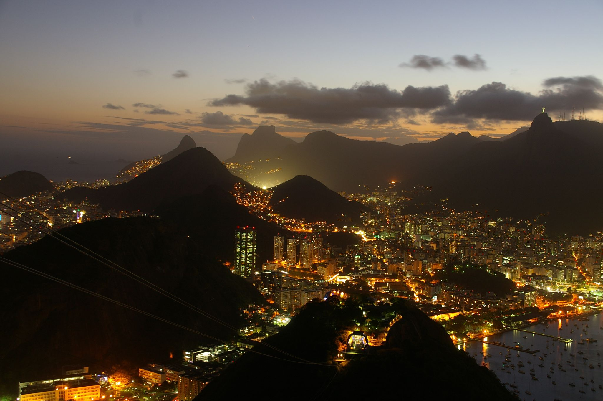 Rio, during sunset....